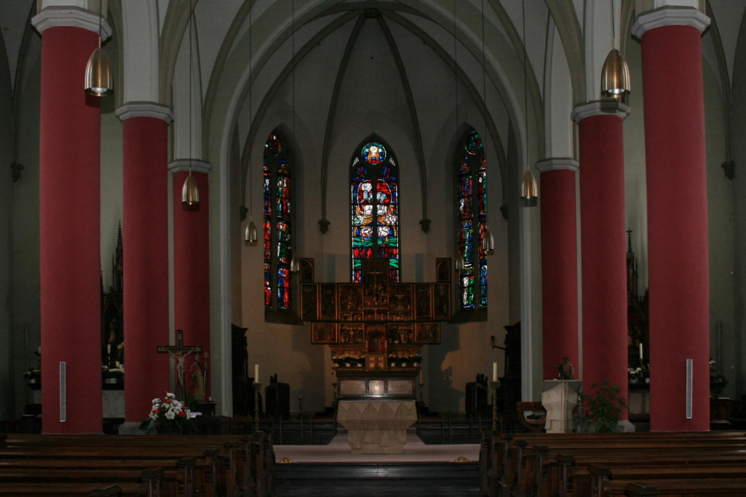 Cultural heritage monument No. 26 in Titz